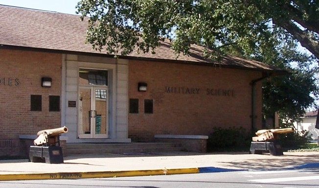 Brass cannon in front of LSU ROTC building